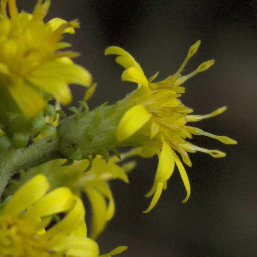 Stout Goldenrod (Solidago squarrosa) Blooming capitulum, showing diagnostic recurved phyllaries. Raystown Lake Mitigation Area, Marklesburg, Pennsylvania, USA